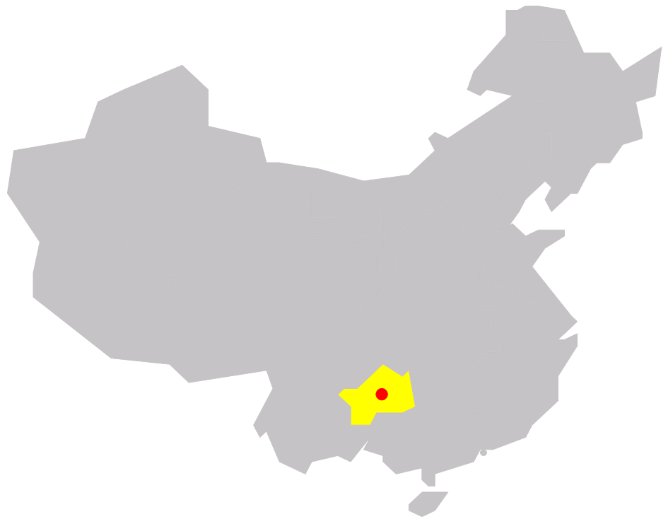 Description: position of Guiyang in China Source: own work Date: December 2005 Author: --Immanuel Giel 12:30, 15 December 2005 (UTC) Other versions: none